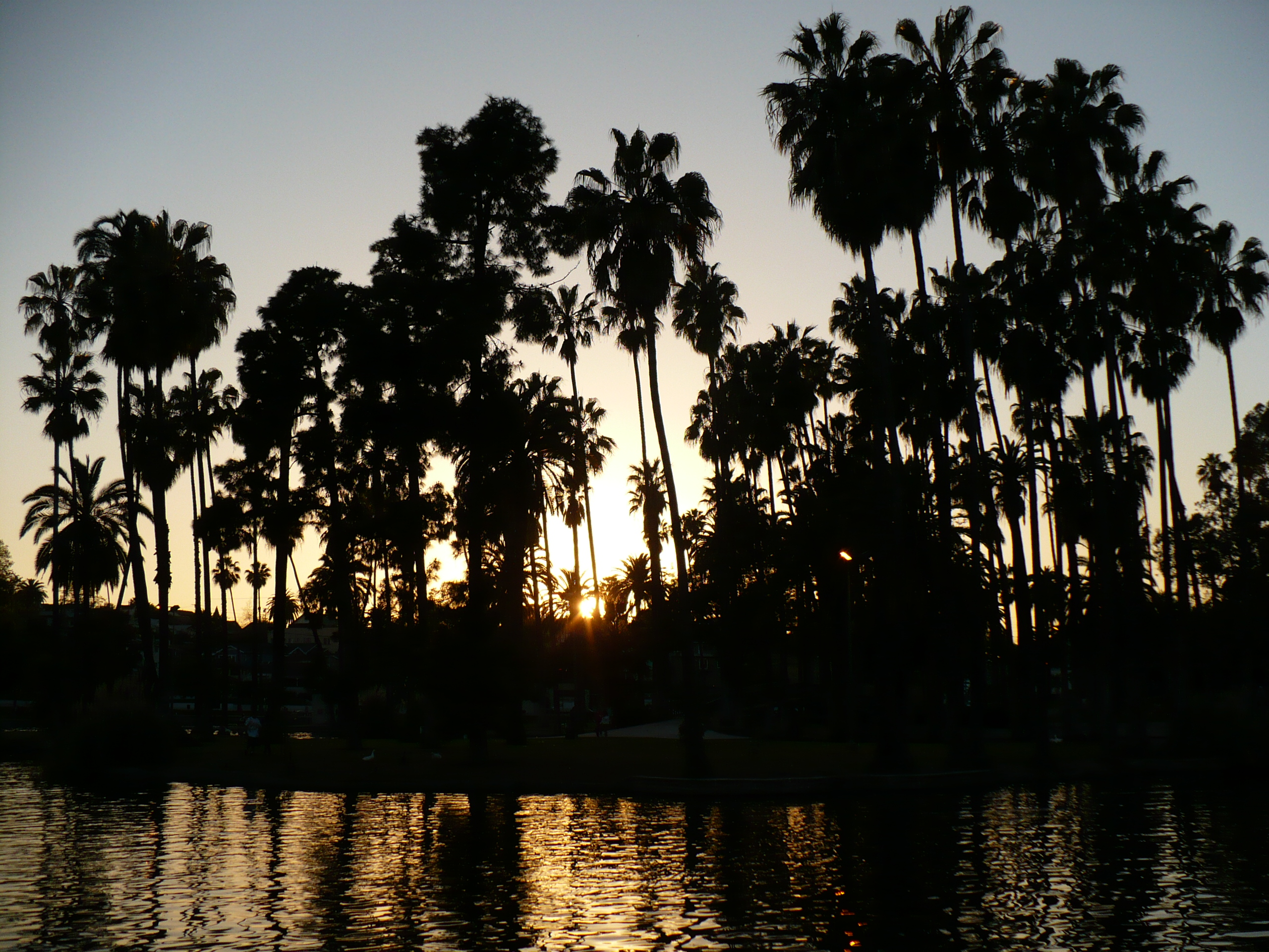 Palms, lake, and sunset in Echo Park — city park in the Echo Park district of Los Angeles.